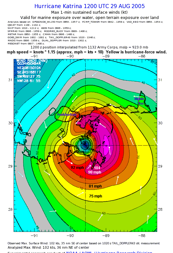 NOAA Hurricane Katrina windspeed map, for 29 August 2005 at 1200 UTC (7 CDT), one hour after landfall in Louisiana (at Buras-Triumph), based on post-TCR analysis data. The map has been labeled with "Pontchartrain" and "Mobile Bay" plus a top note about converting wind speed from knots/kt to mph, showing some bands also marked with "mph" and has been retouched for clarity when resized smaller.